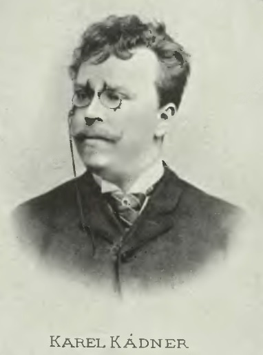 Karel Kádner (November 4, 1859 in Hřivice - February 6, 1923 in Prague) - Czech journalist, writer, librettist, poet.